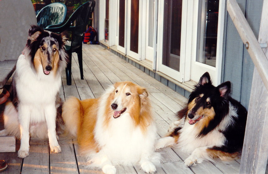 From left to right: blue merle, sable and tricolour coloured Rough Collies named Ali, Gretchen and Trixie.